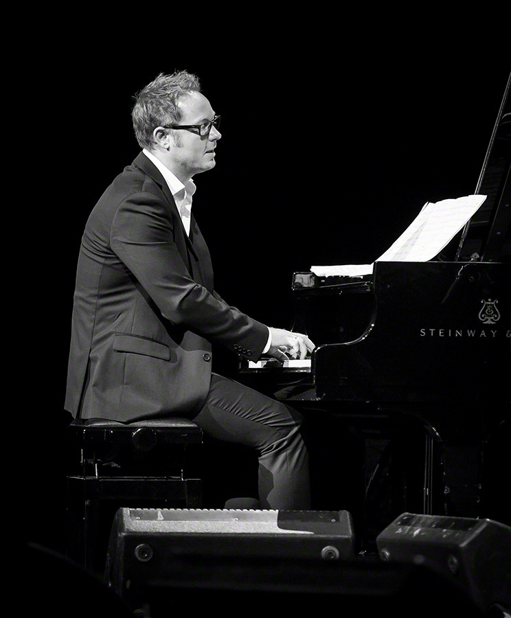 Anders Aarum with Hilde Louise Asbjørnsen at the main stage of Oslo Opera House. The concert was part of the Oslo Jazz Festival in Norway and took place on 15. August 2016. Lineup:Hilde Louise Asbjørnsen (vocal)Marius Haltli (trumpet)Erik Eilertsen (trumpet)Kåre Nymark (trumpet)Jørgen Gjerde (trombone)Kristoffer Kompen (trombone)Håvard Fossum (saxophone)Atle Nymo (saxophone)Lars Frank (saxophone)Anders Aarum (piano)Svein Erik Martinsen (guitar)Jens Fossum (double bass)Hermund Nygård (drums)